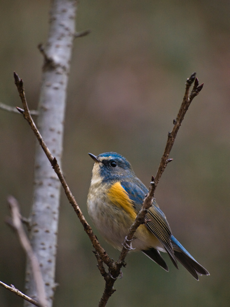 Red-flanked Bluetail Tarsiger cyanurus, adult male, Japan